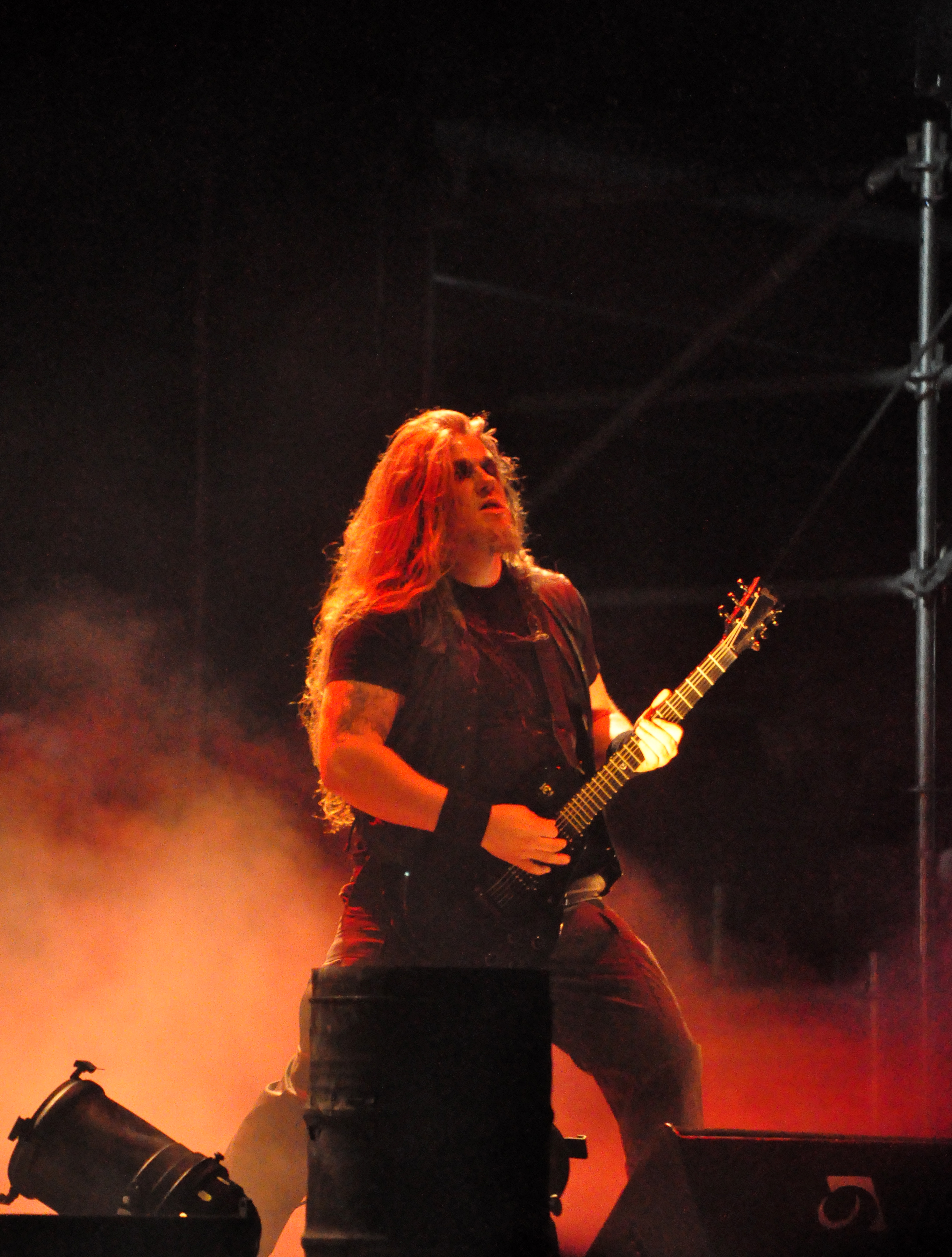 Naglfar at Party.San Open Air 2012